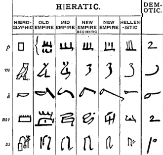 An illustration from the Encyclopaedia Biblica, a 1903 publication which is now in the public domain. Fig. 2 for article "Egypt". Illustration of the evolution of letters in Egyptian.